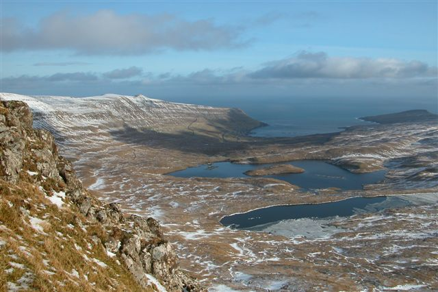 West of Hov